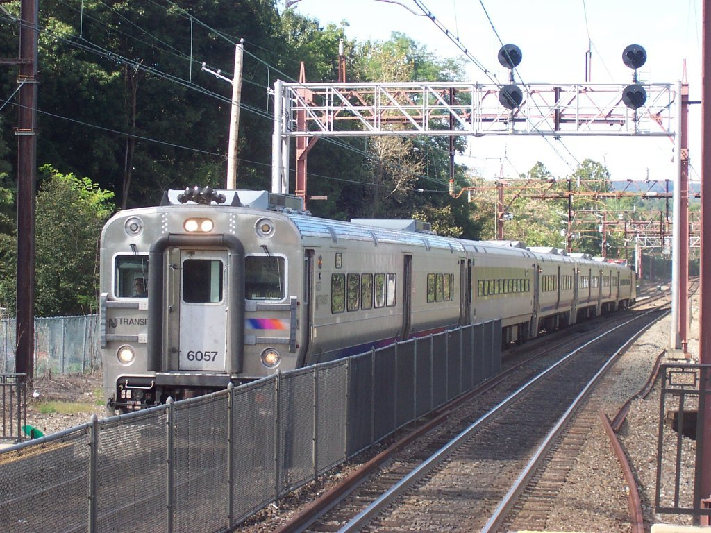 New Jersey Transit train #6648 entering Morristown Station.